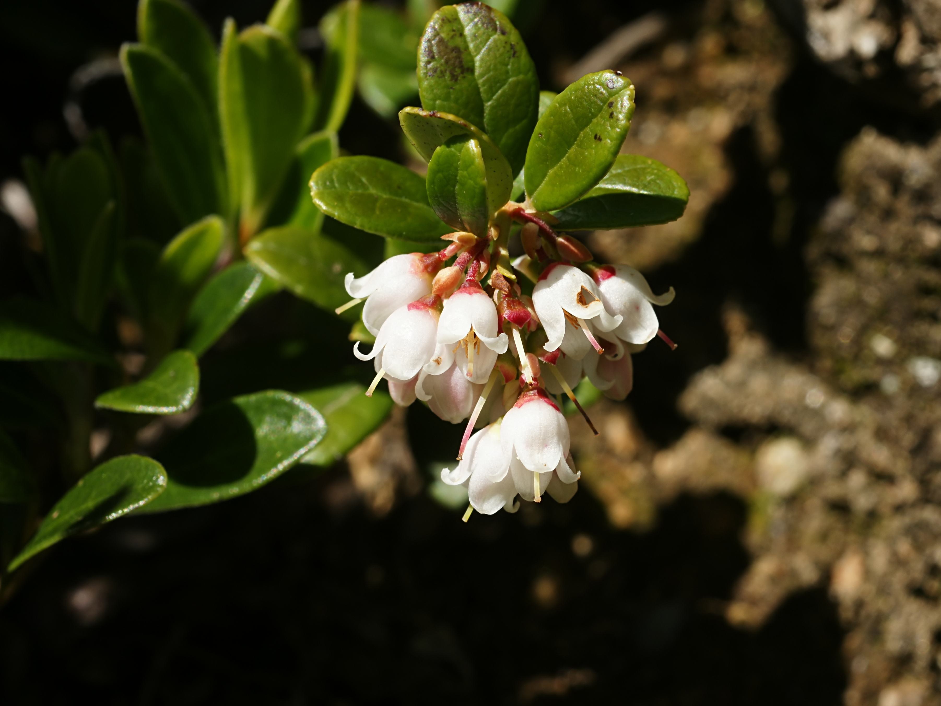 Lingonberry, , close to Gletschertafel, Lötschental, Switzerland